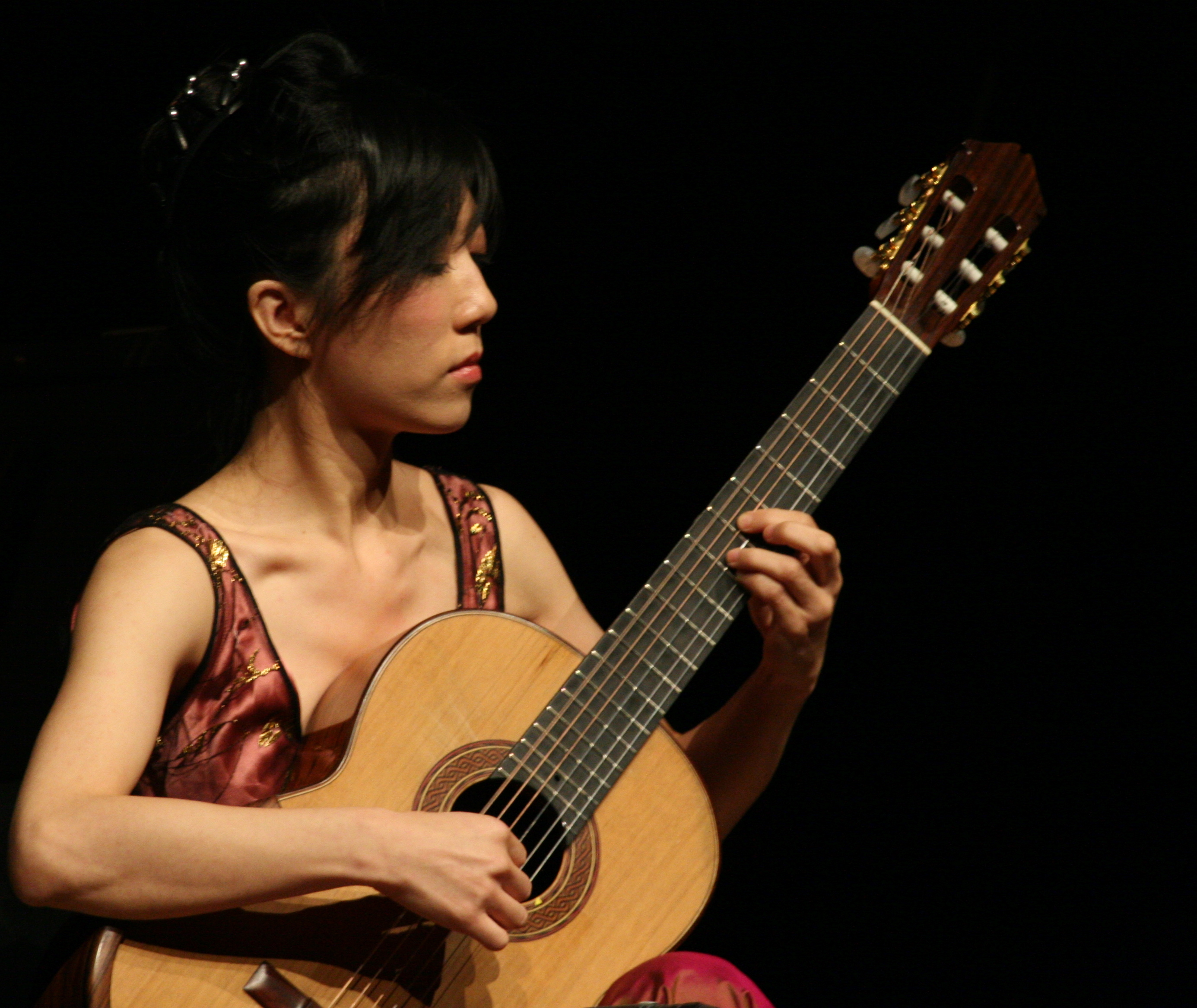 Chinese classical guitarist Xuefei Yang performing the Concierto de Aranjuez by Joaquín Rodrigo